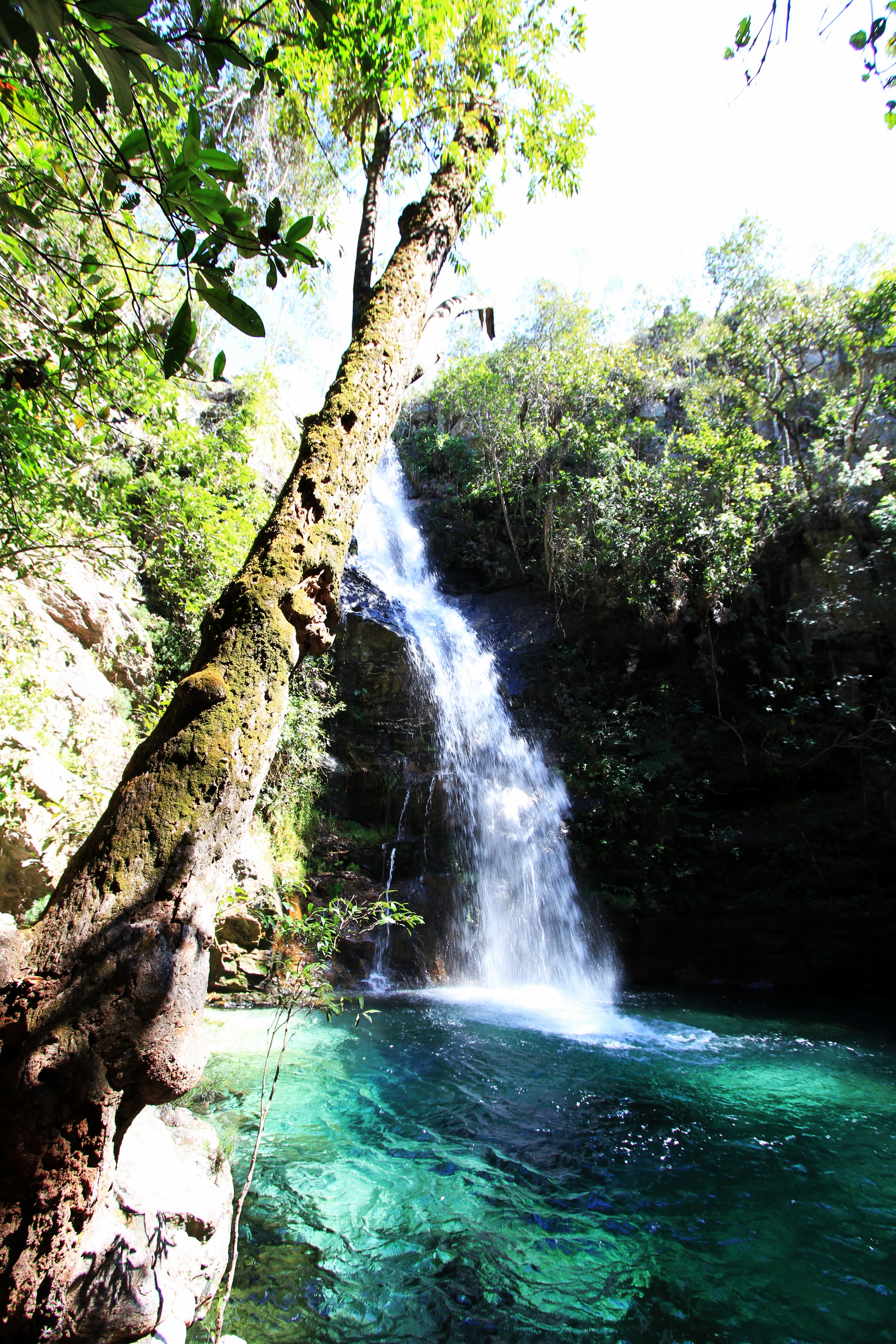 santa barbara cascate - cavalcante - goias - brasil